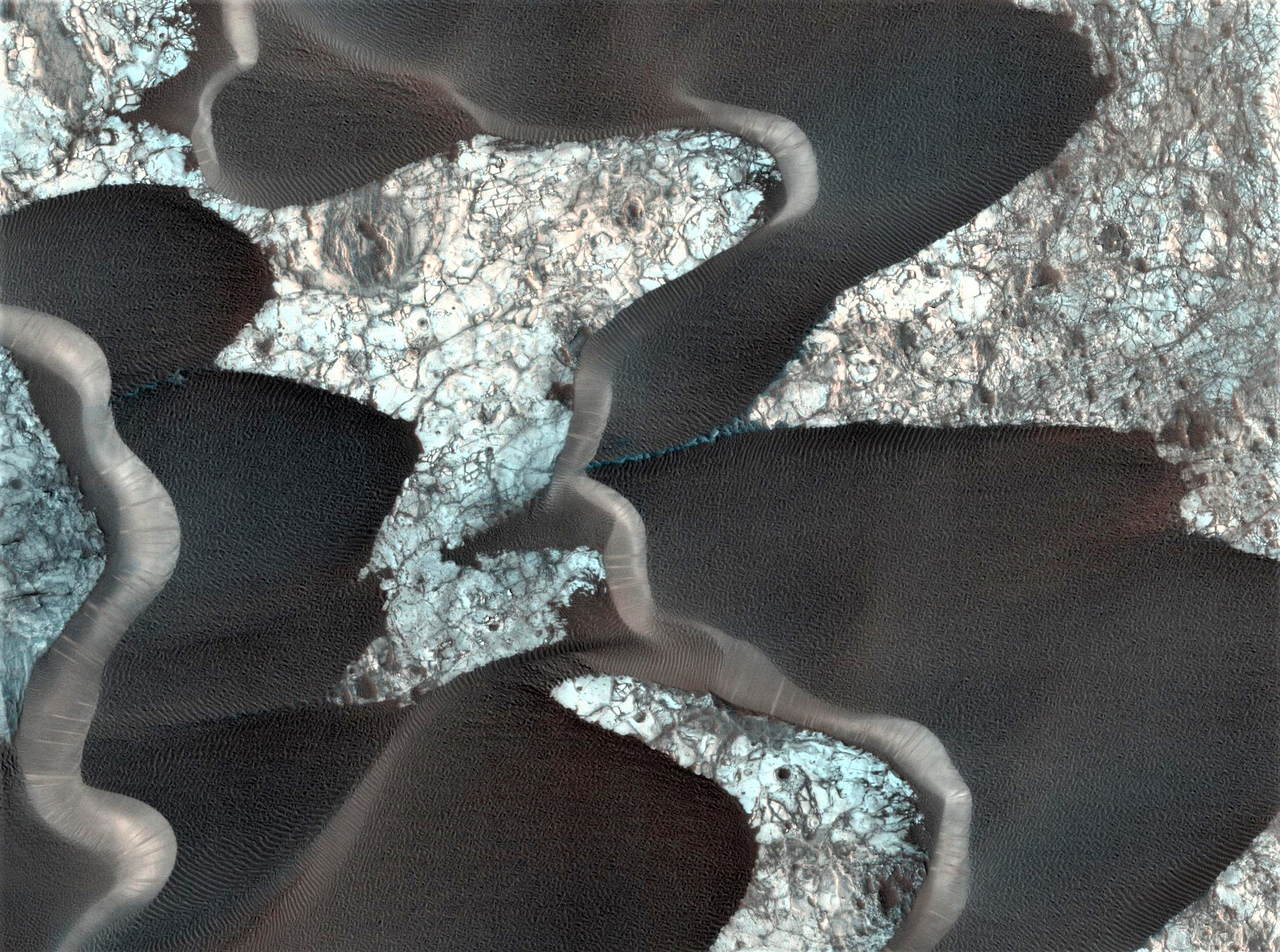 Dark sand dunes on Nili Patera (PSP_005684_1890_cut_b.jpg)